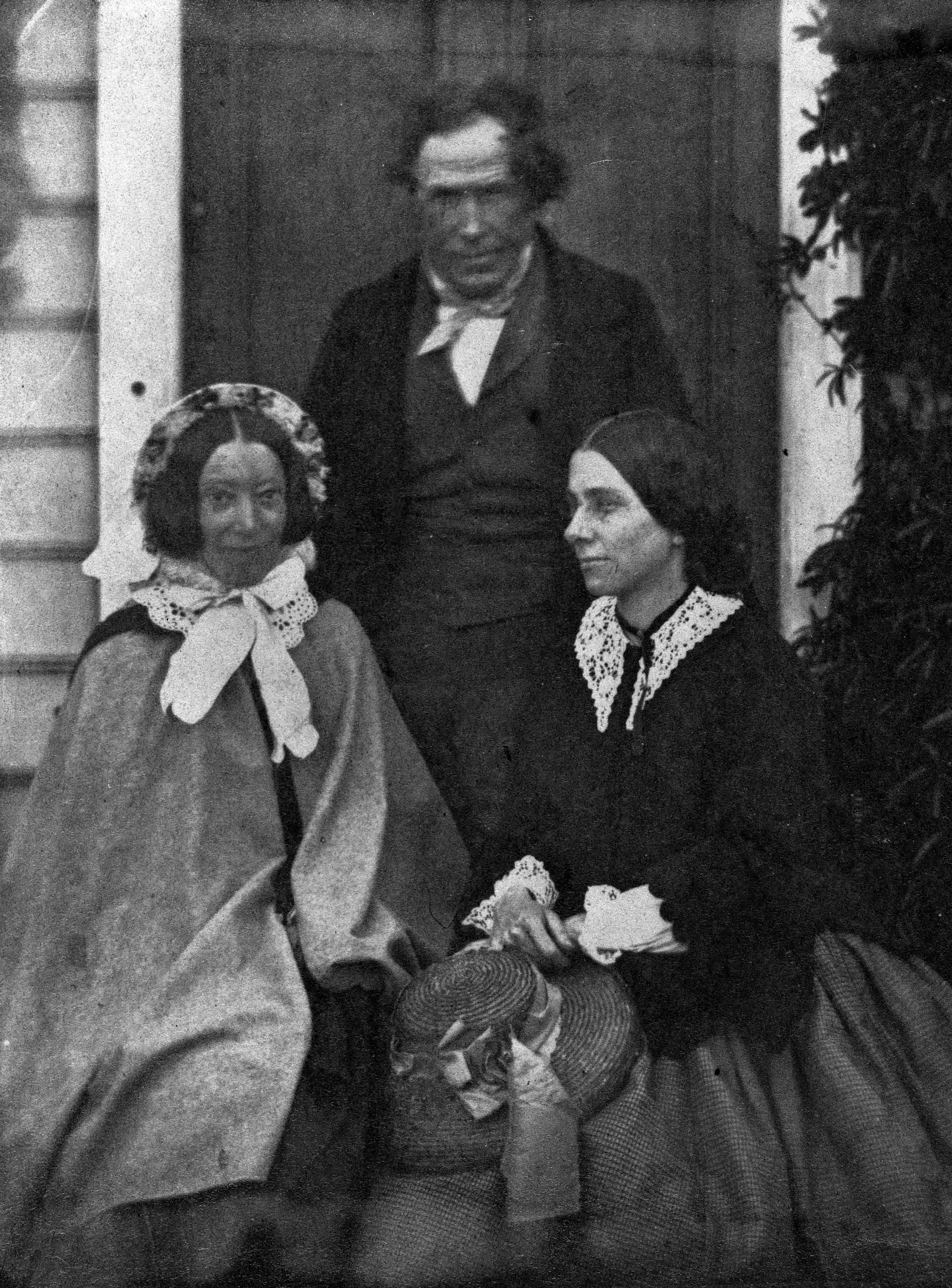 Bethia Campbell Featherston (left), Doctor Andrew Sinclair and Jessie Cruickshank Crawford.